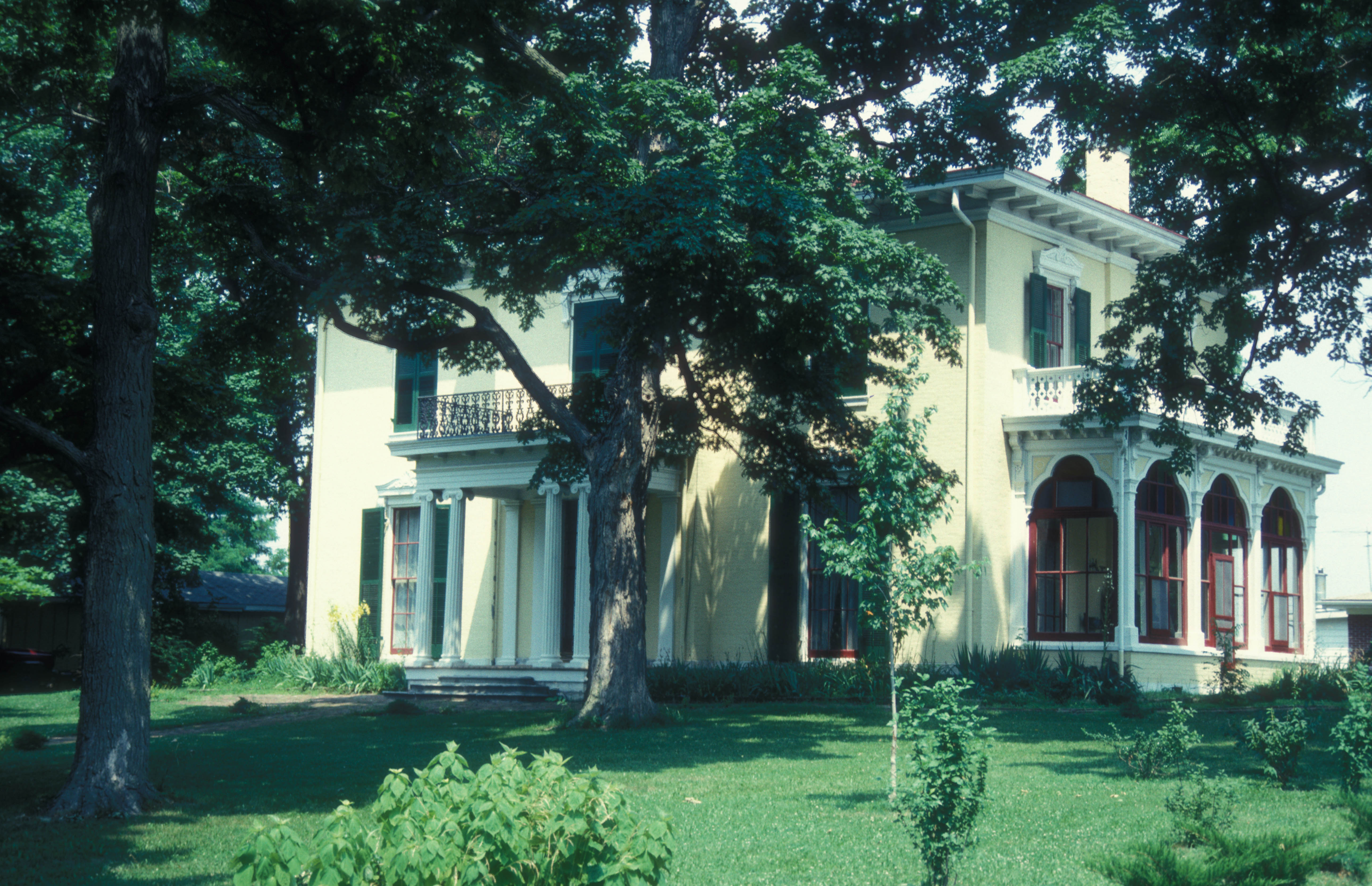 BUILT IN 1855 BY A WEALTHY VIRGINIAN. BOUGHT BY THE SON OF THE FOUNDER OF THE PONY EXPRESS WHO DIED HERE